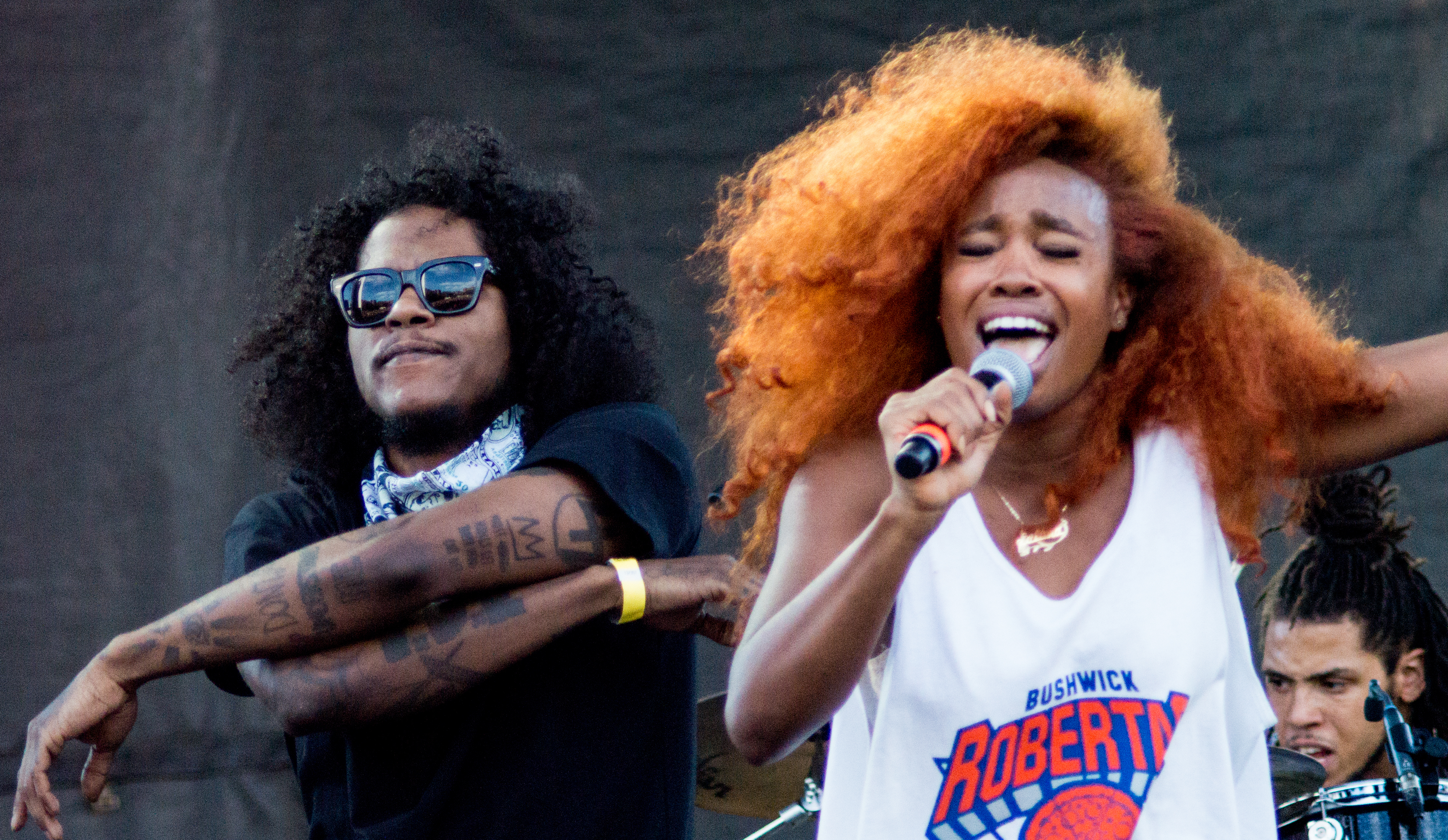 Ab-Soul and SZA performing at the AfroPunk festival in Brooklyn, New York in 2015.